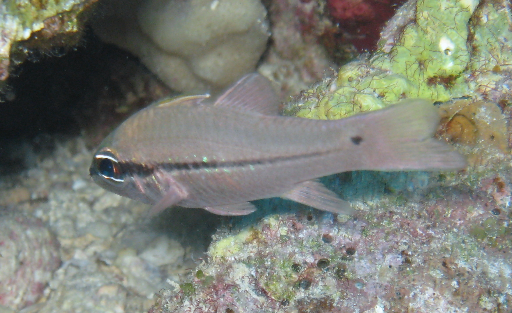 Apogon fraenatus near Safaga, Egypt